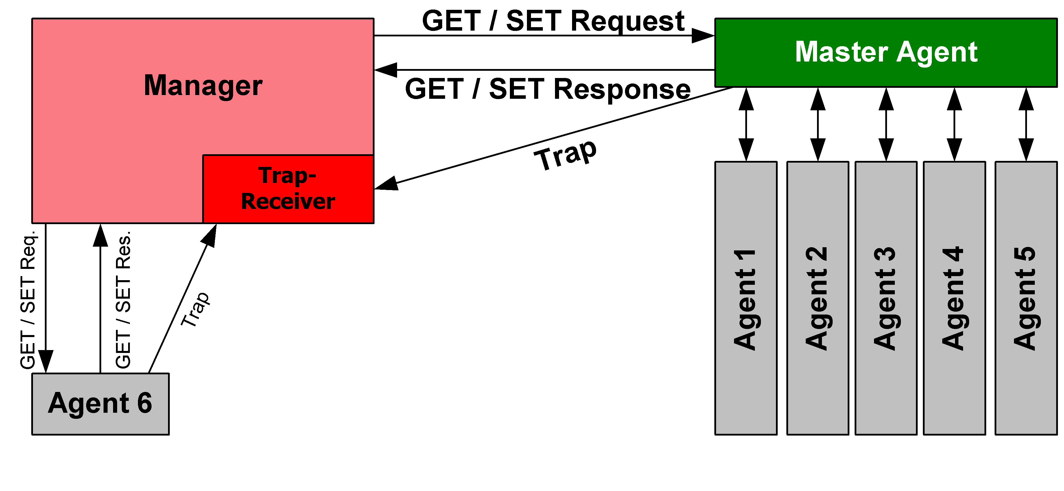 SNMP communication principles diagram, changed one item from Deutsch to English.